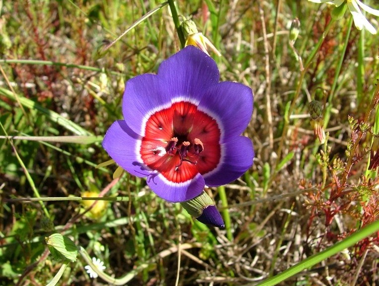 The flower Geissorhiza radians. Uitkamp Wetlands reserve. Cape Town. Vegetation type Swartland Shale Renosterveld.